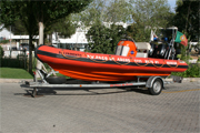 AHBVPA-BSRS 01